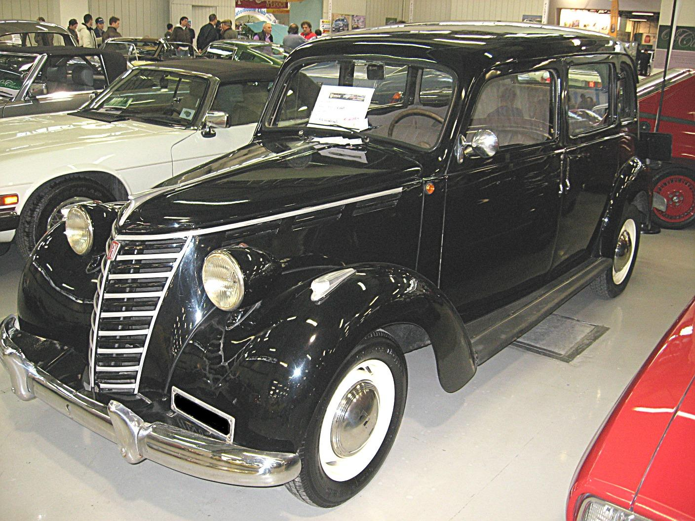 Subject:Fiat 1100 EL (1948) 6 places Author:Luc106 Date:March 15th, 2007 Event:Old Timer Show 2008 Place/Country: Forlì, Italy I release all rights in the public domain.